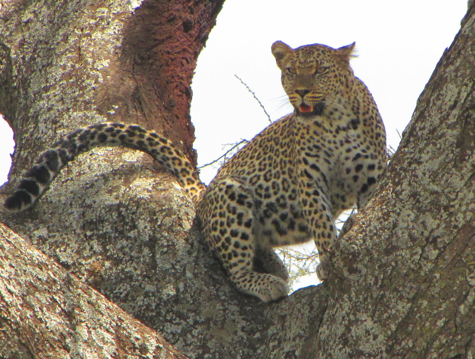 African Leopard (Panthera pardus pardus), in tree in Serengeti, Tanzania